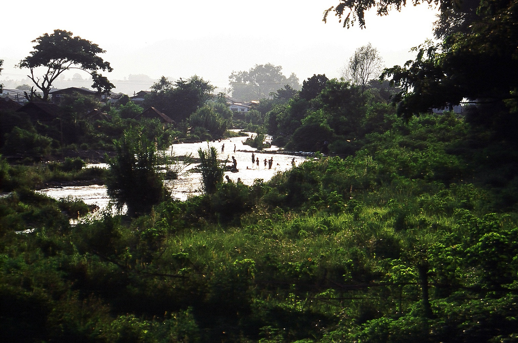 Hsipaw (Thibaw), Shan State, Myanmar